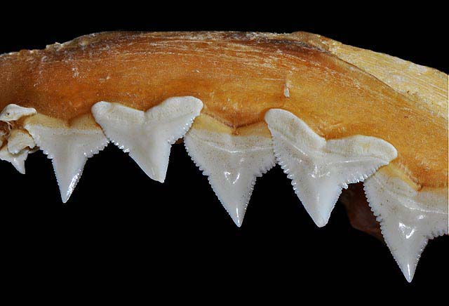 Carcharhinus falciformis